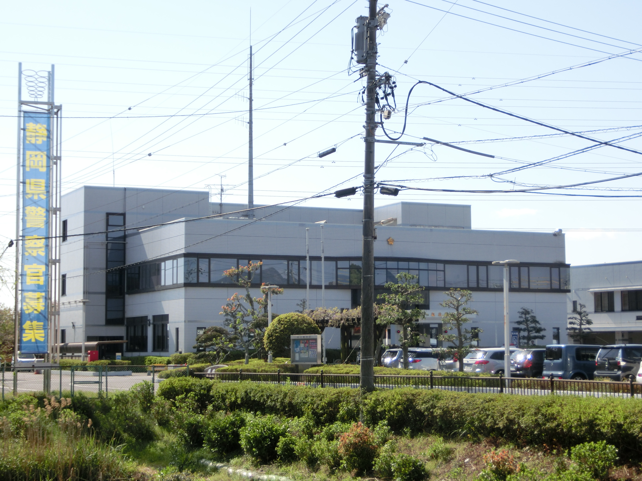 Fujieda Police Station